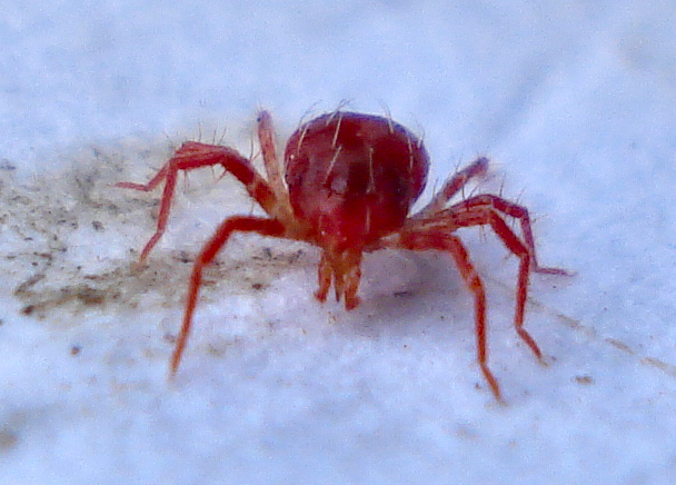 British Spiders, Phytoseiulus persimilis